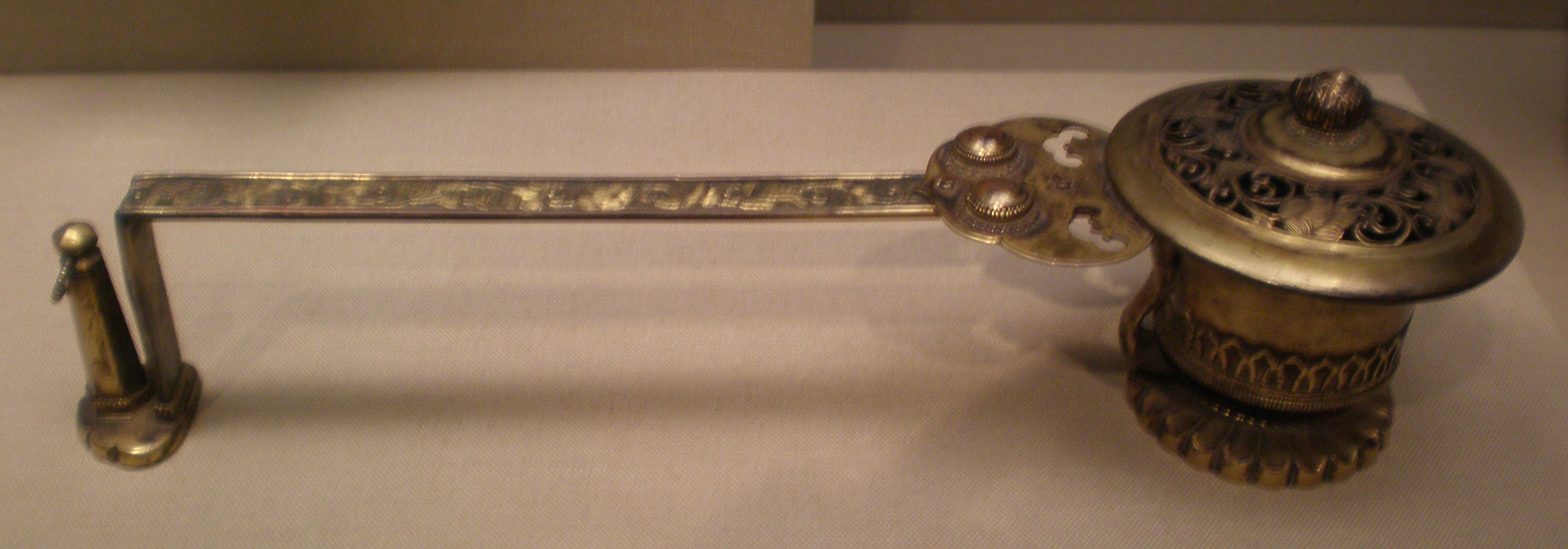 A bronze long-handled censer (egoro) from the Muromachi period (1185-1333). On display at the Asian Art Museum in San Francisco, California. B65B49